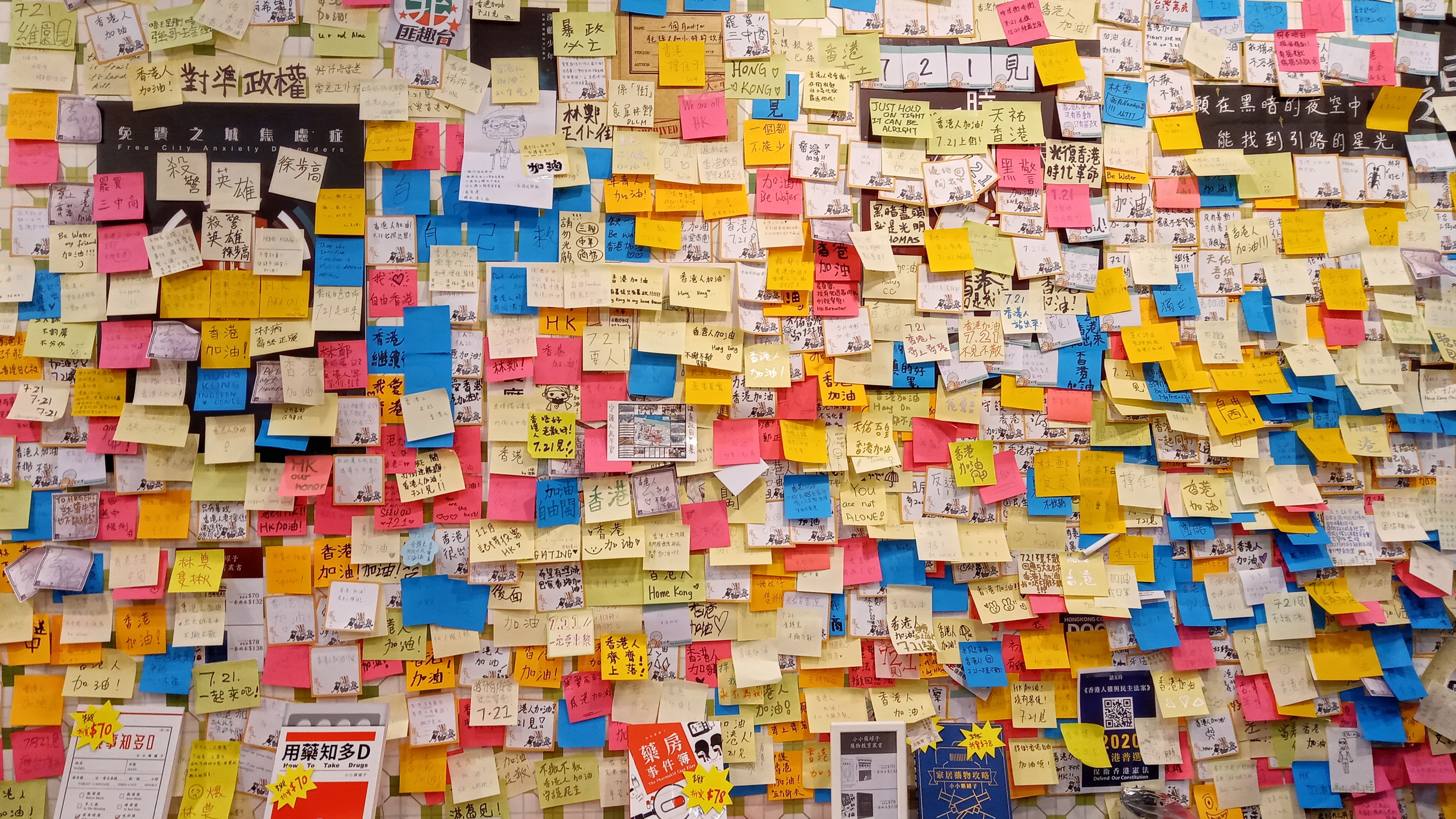 A part of Lennon Wall in Hong Kong book fair 中文（香港）: 香港書展內部分的連儂牆